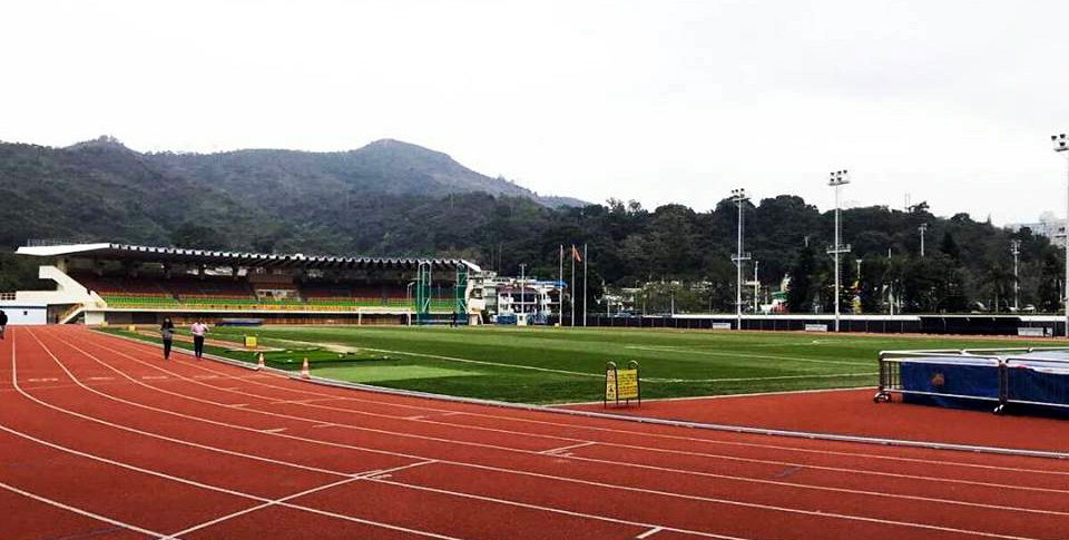 Tai Po Sports Ground